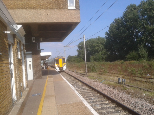 British Rail Class 379 on a Sunday service to Stratford. At Broxbourne station, Platform 1.